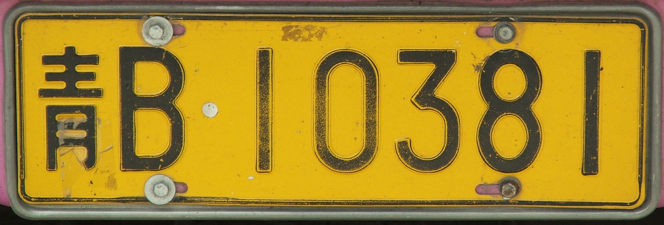 青 license plate of Qinghai, People's Republic of China as seen in 2008.